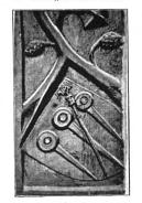 Coat of arms of Johann Preen, bishop of Ratzeburg, on the choir stalls in Gadebusch parish church